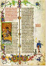 Screenshot of the Codex Gelnhausen